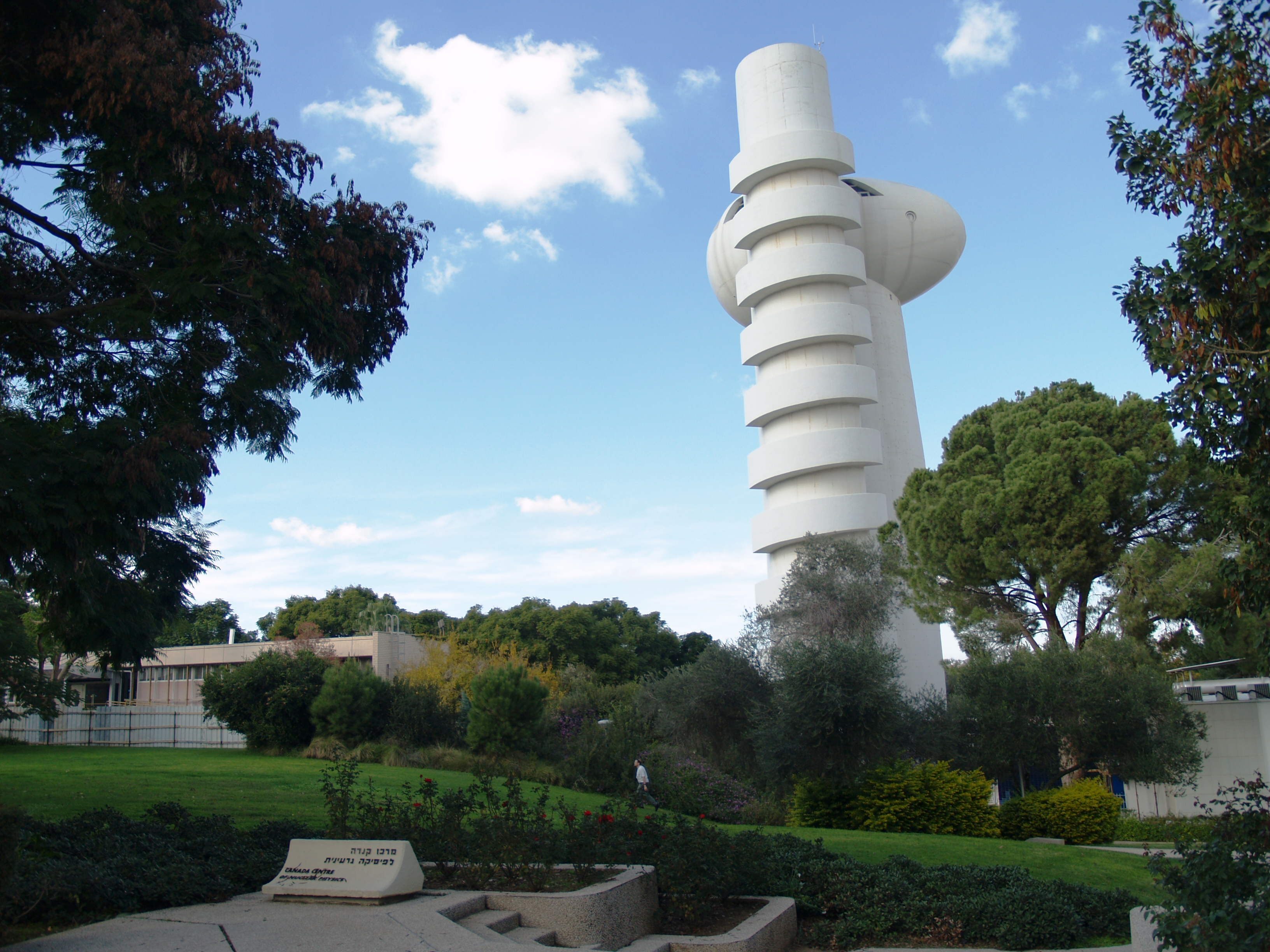 The particle accelerator of Israel's Weizmann Institute of Science